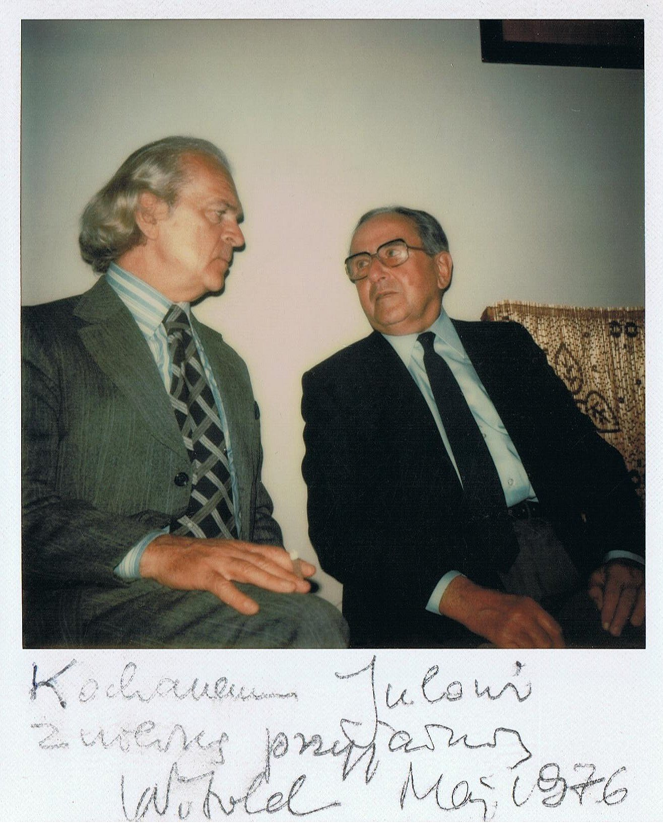 Dr Julian Godlewski (1976), Polish lawyer & philanthropist and Witold Małcużyński (left), Polish pianist (a photo with Małcużyński's dedication)